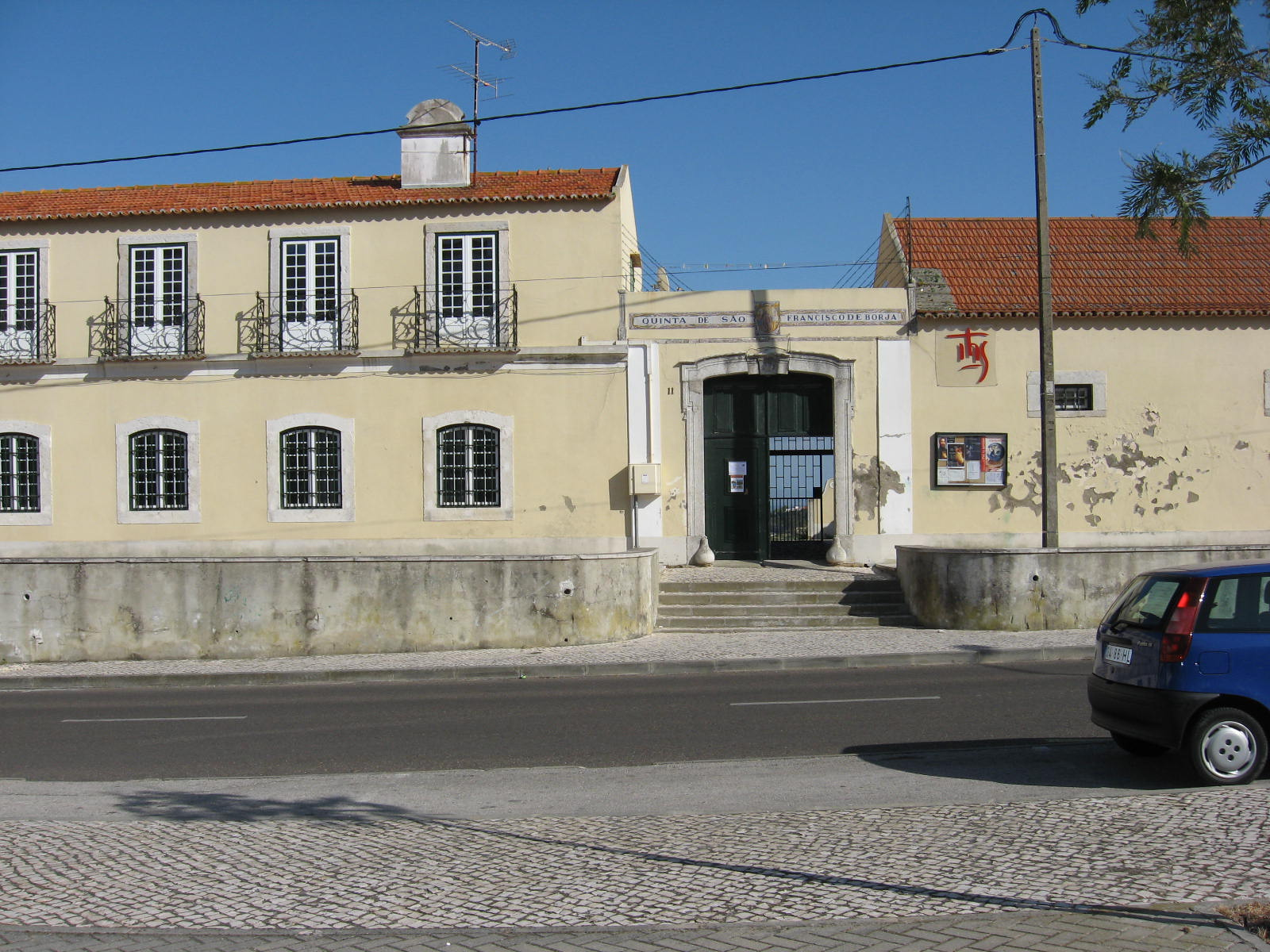 Is a image of a church (São Francisco de Borja) in Alcaniça, Almada.